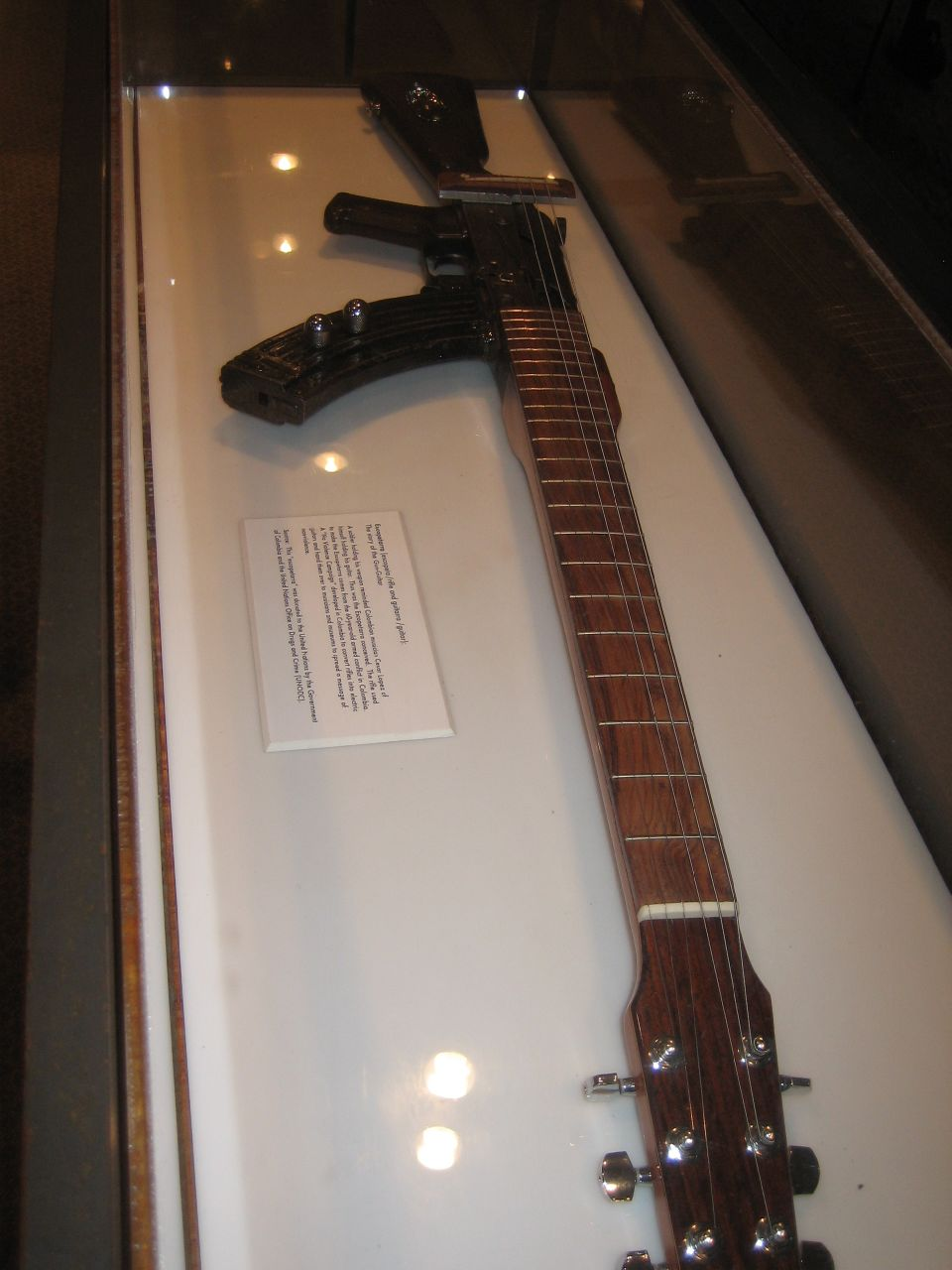 I believe that this guitar was created by a Columbian artist. It was created from a real AK-47. It is a functional guitar and other models are in use by artists such as Shakira (also of Columbia) and Bono from U2.